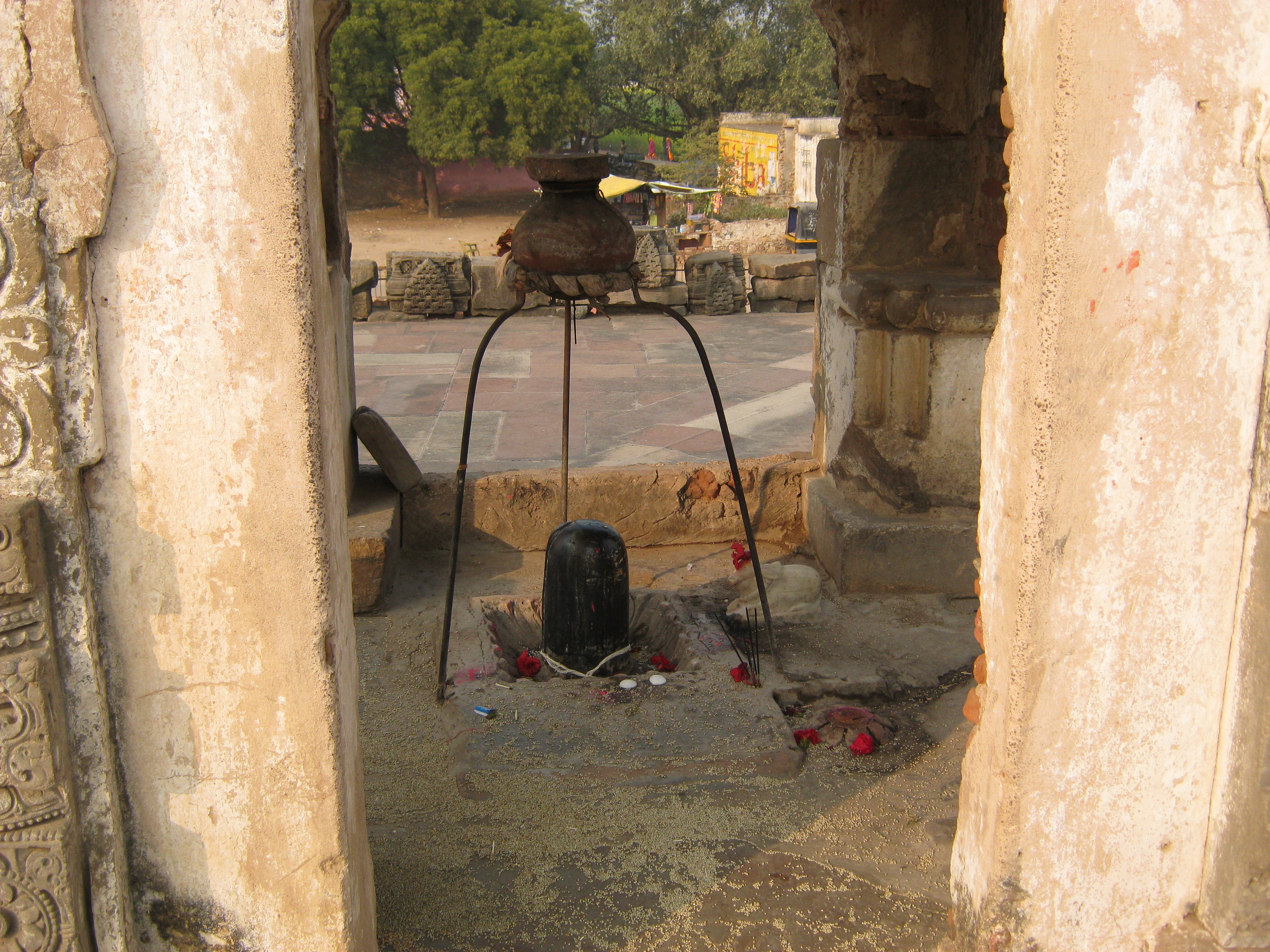 A Shivalaya in Harshad Mata Temple Campus